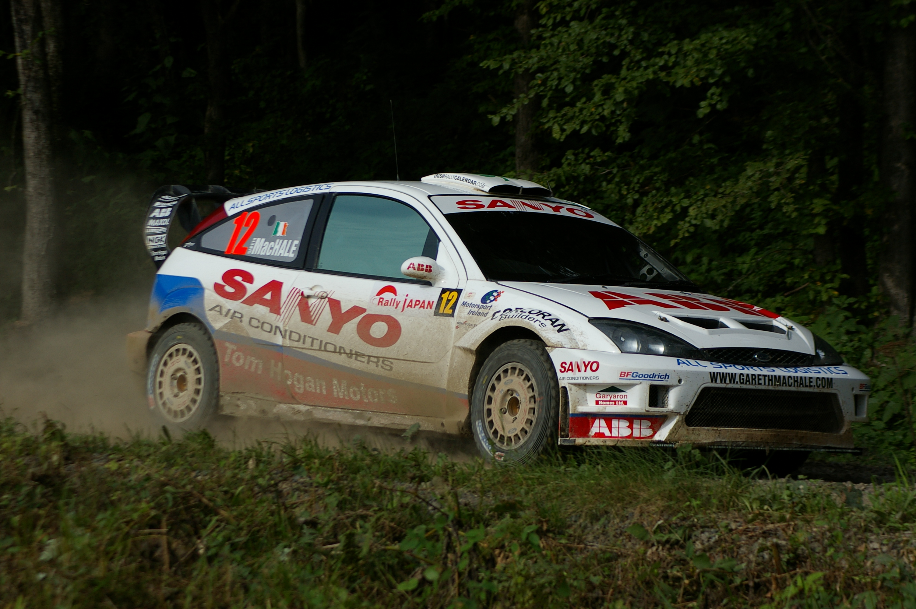 Ford Foucus WRC'04 in RallyJapan 2006.